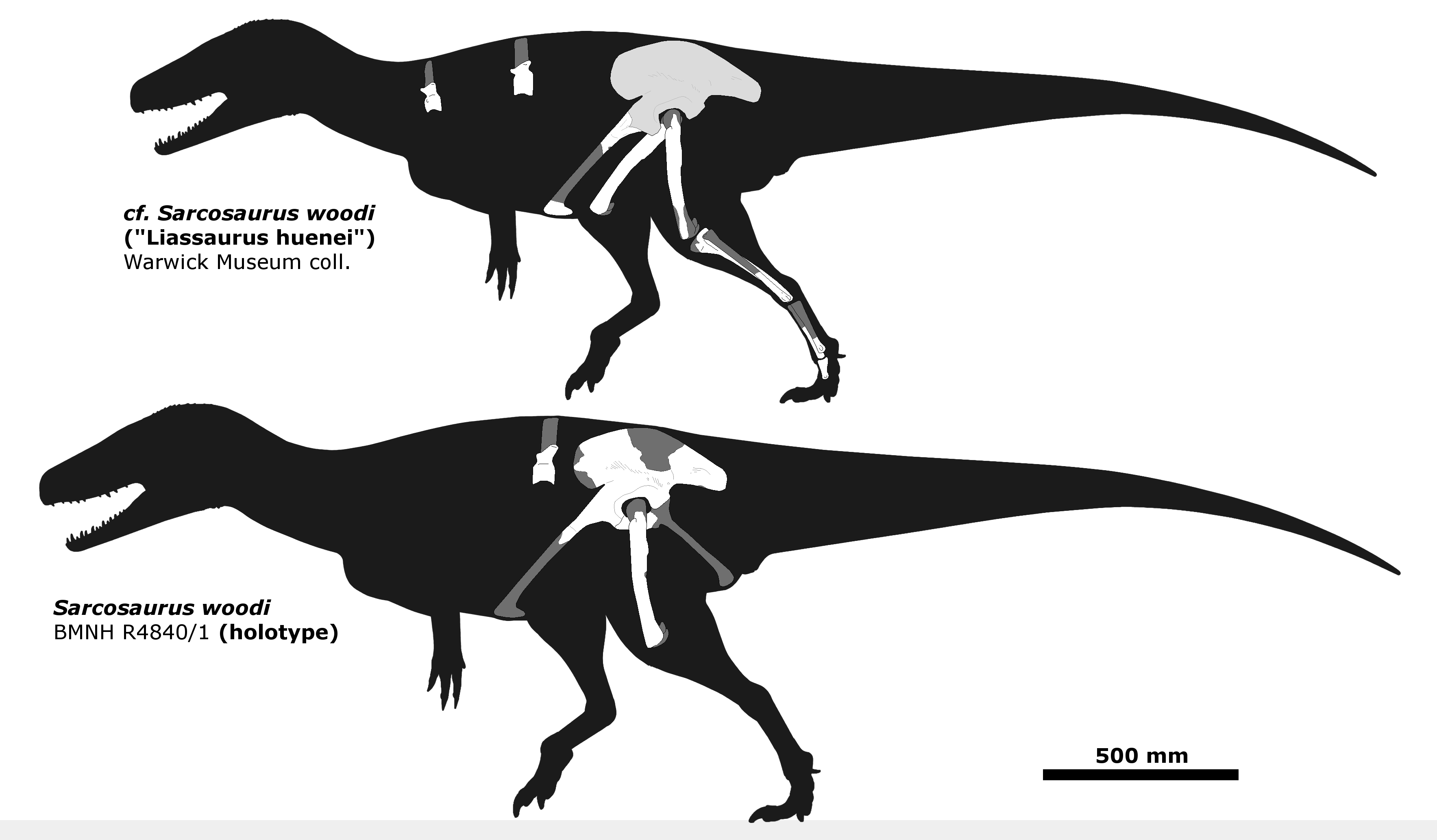 Sarcosaurus diagram of known material: reconstruction based on basal Ceratosaurs (such as Berberosaurus and Saltriovenator). The Skull was made to look more generic and less like more derived Ceratosaurs such as Ceratosaurus. "Liassaurus", referred to "cf. Sarcosaurus woodi" and is smaller than the holotype: material in light grey is preserved, but to what extent is uncertain as it is not figured. References: Carrano and Sampson (2004). "A review of coelophysoids (Dinosauria: Theropoda) from the Early Jurassic of Europe, with comments on the late history of the Coelophysoidea." N. Jb. Geol. Palaont. Mh., 2004(9): 537-558. (for figures of the material) (for measurements of "Liassaurus") Allain, Ronan & Tykoski, Ronald & Aquesbi, Najat & Jalil, Nour-Eddine & Monbaron, Michel & Russell, Dale & Taquet, Philippe. (2007). An abelisauroid (Dinosauria: Theropoda) from the Early Jurassic of the High Atlas Mountains, Morocco, and the radiation of Ceratosaurs. Journal of Vertebrate Paleontology. 27. 10.1671/0272-4634(2007)27[610:AADTFT]2.0.CO;2. (for measurements for Berberosaurus)